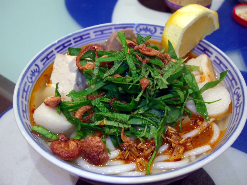 Bún Bò Huế, a spicy Vietnamese soup noodle dish. This image is not of Bun Bo Hue proper. Rather, it shows the rice noodles used in Bun Bo Hue. The author of the image used a package of rice noodles and used chicken broth, tofu, beef and fish balls, and mint for this dish.